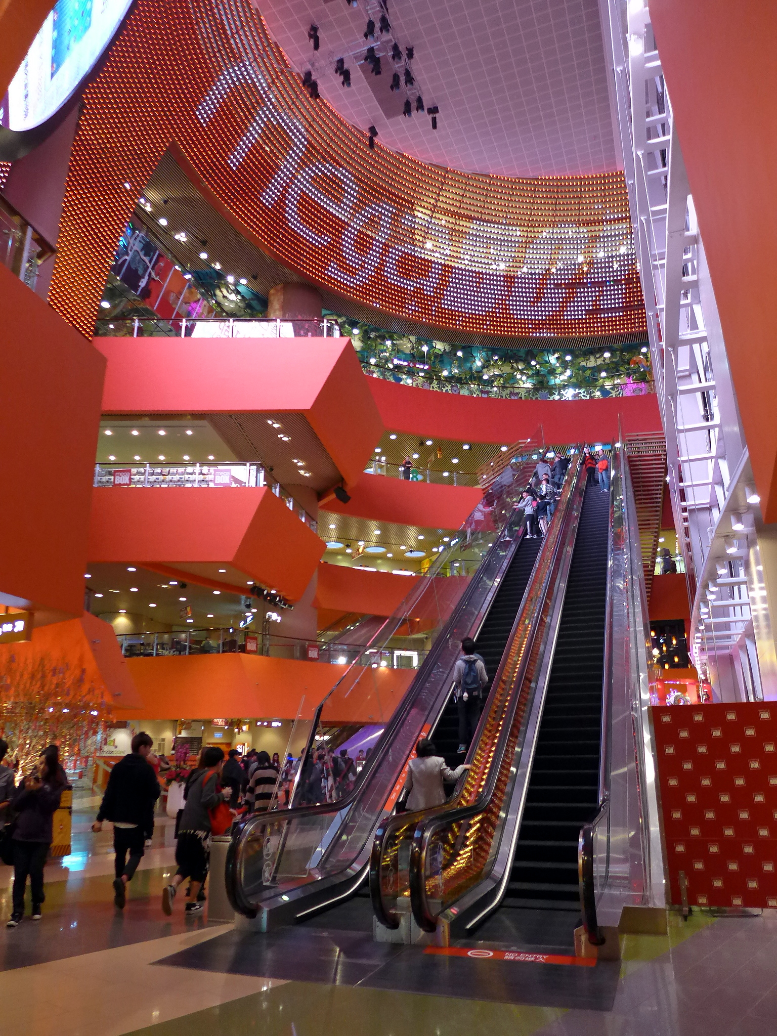 HK MegaBox Main Atrium